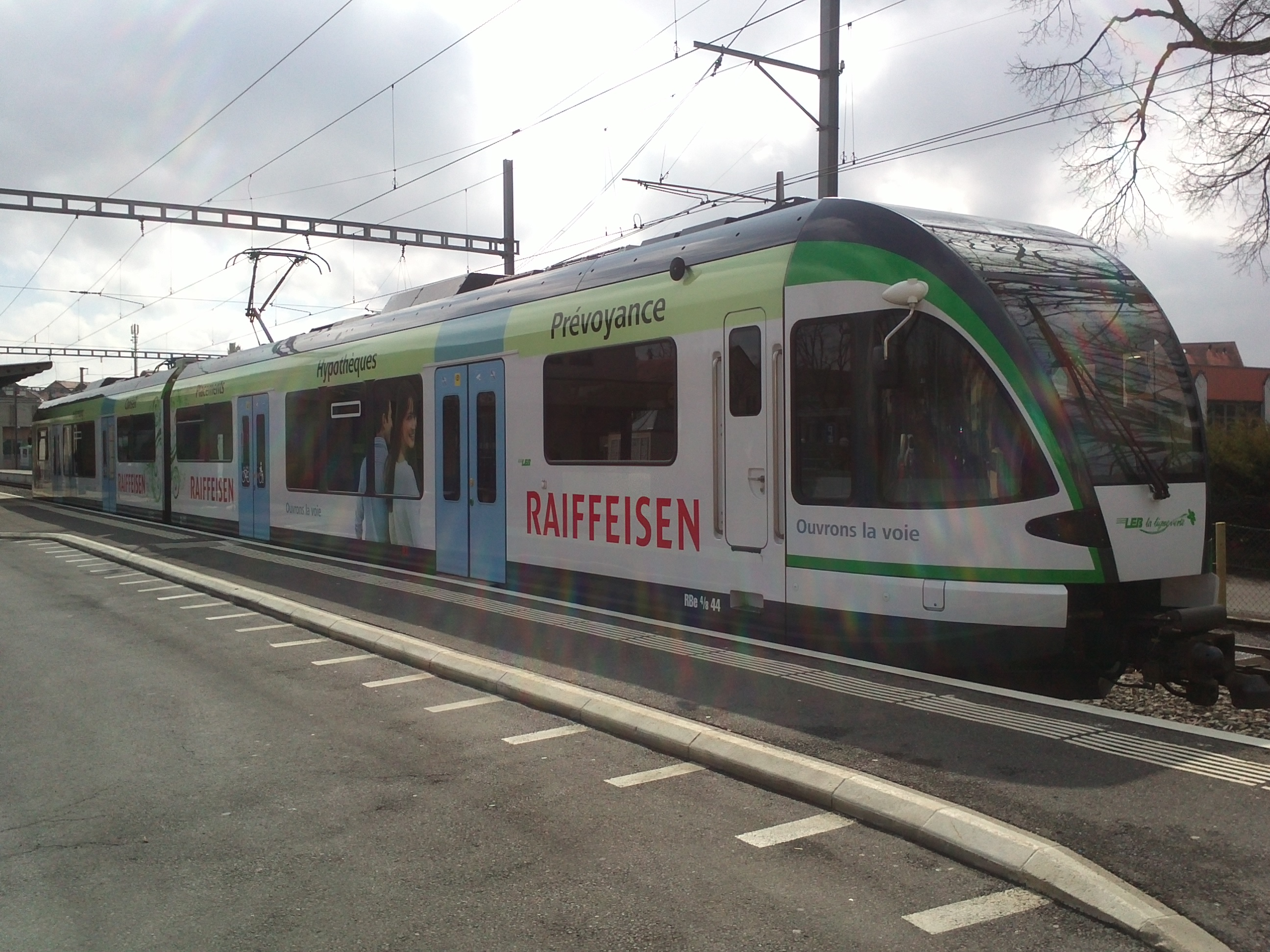 RBe 4/8 44 at the railway station of Échallens with advert for the Raiffeisen bank.